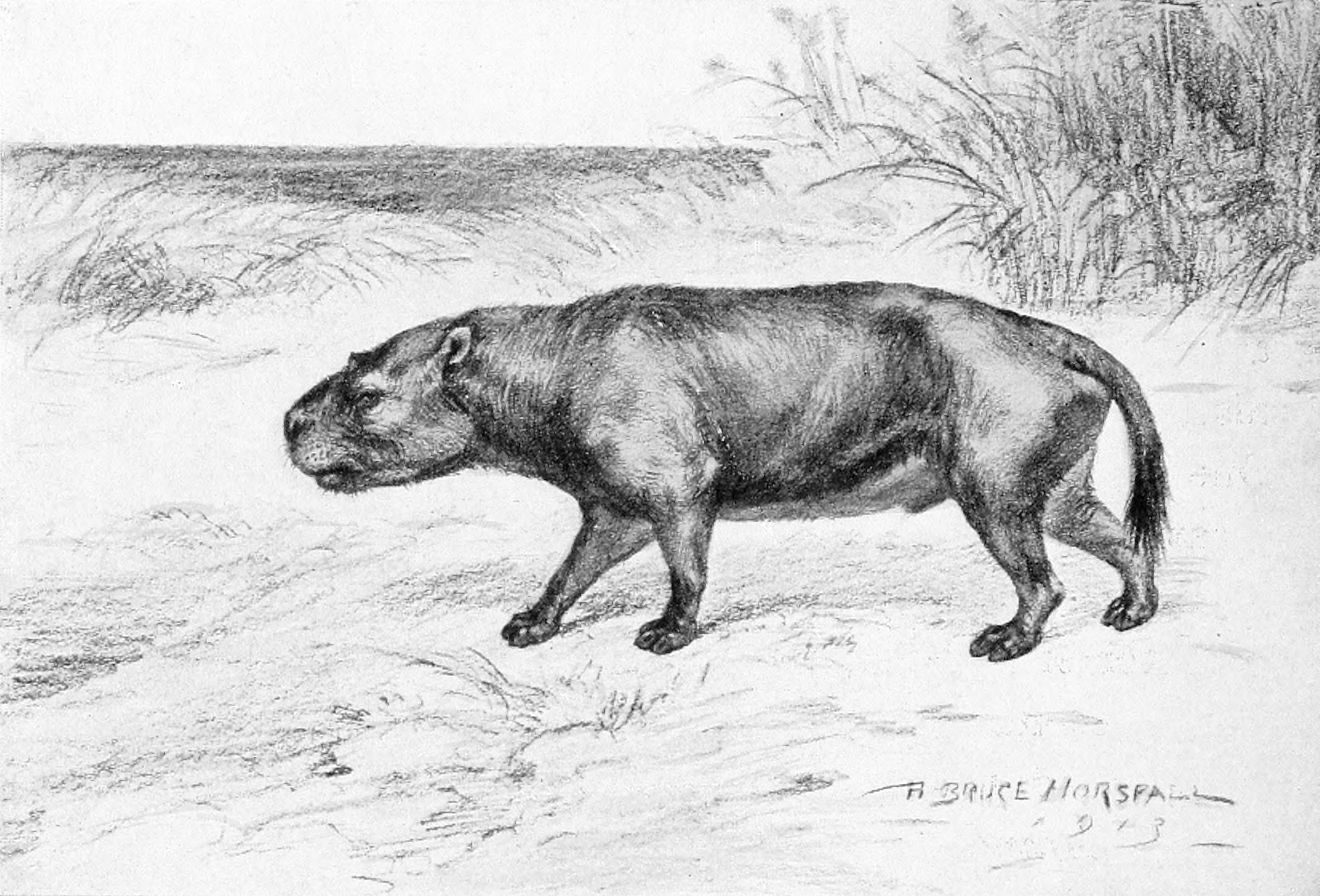 Nesodon (formerly Adinotherium) ovinum.